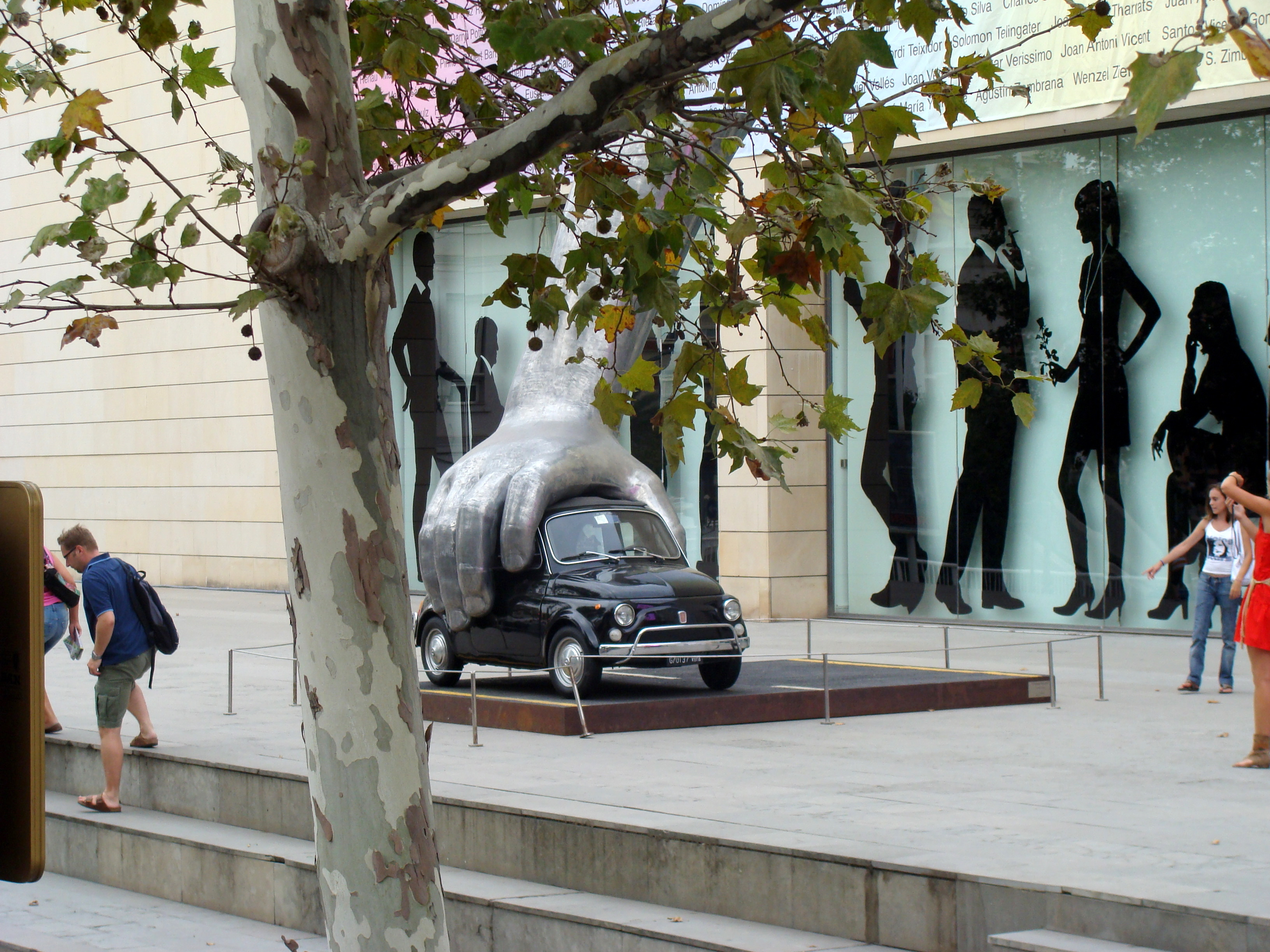 A Fiat 500 as a part of a sculpture outside of the IVAM in Valencia during an exposition of modern art